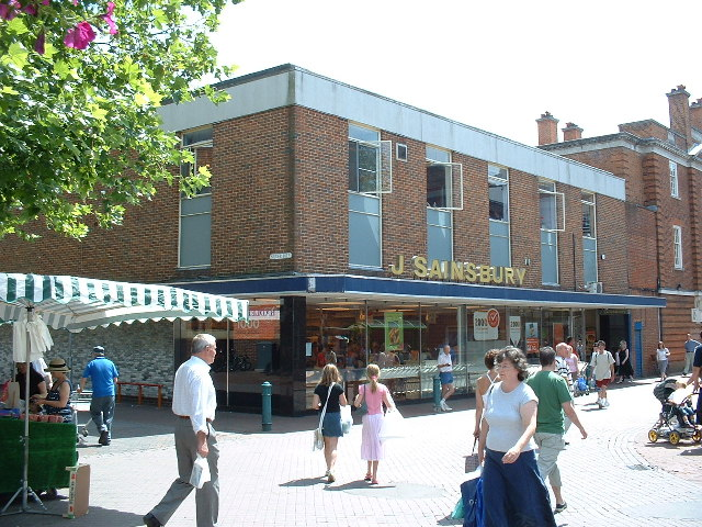 Sainsbury's, Winchester. Sainsbury's supermarket, near the Brooks Centre in Winchester city centre.